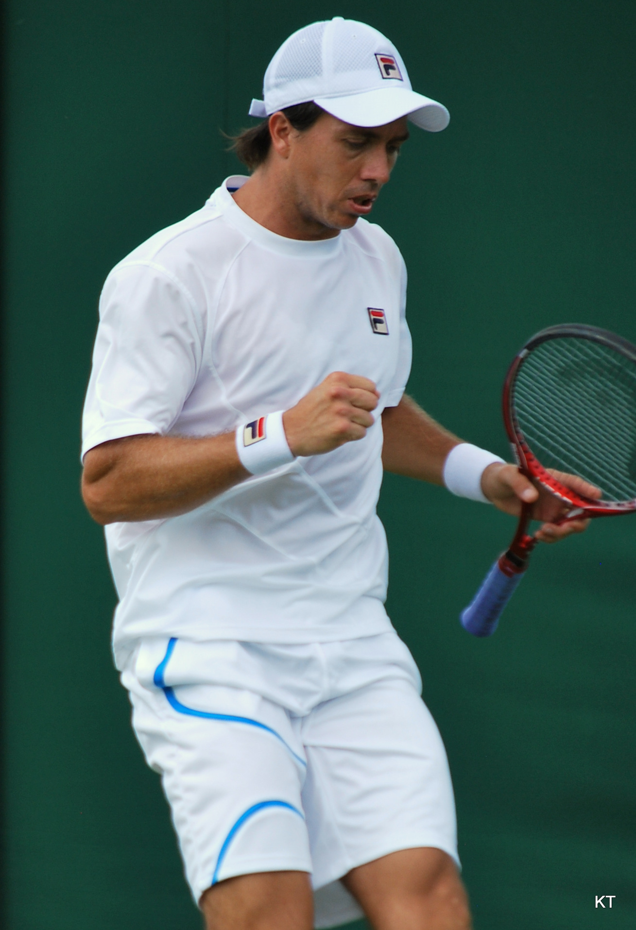 Carlos Berlocq during his first round match with Ruben Bemelmans, on Day 1 of Wimbledon 2012. Bemelmans won 7-5, 6-7, 6-3, 7-6.